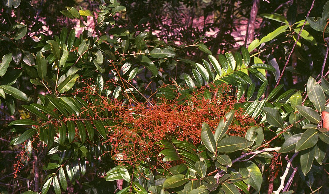 Eurycoma longifolia, Simaroubaceae - Kambodscha/Cambodia, bei den Stromschnellen (rapids) des Flusses Tek Chhou N Kampot (Prov. Kampot)